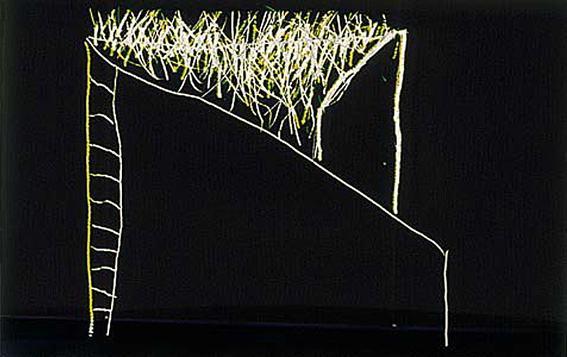 Scratch-Drawing "roofTopGardn_1989" on diapositive by Nikolaus A. Nessler from 1989